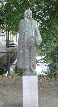 Statue of Paludanus in Enkhuizen, The Netherlands